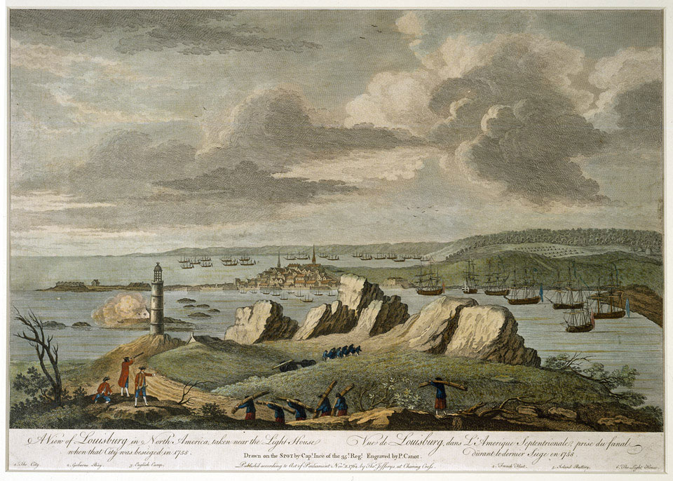 A View of Louisburg in North America, taken near the Light House when that City was besieged in 1758. View of the siege of Louisbourg on Cape Breton Island. Built environment includes fortifications, dwellings, churches, ships, and lighthouse. In the foreground men carry bundles of wood and pull a cannon while others look through telescopes. Items in the image are numbered for identification at the bottom of the image. Place image published:[London]Image publisher:Thos. Jefferys, at Charing CrossImage date:1762 Novr. 11